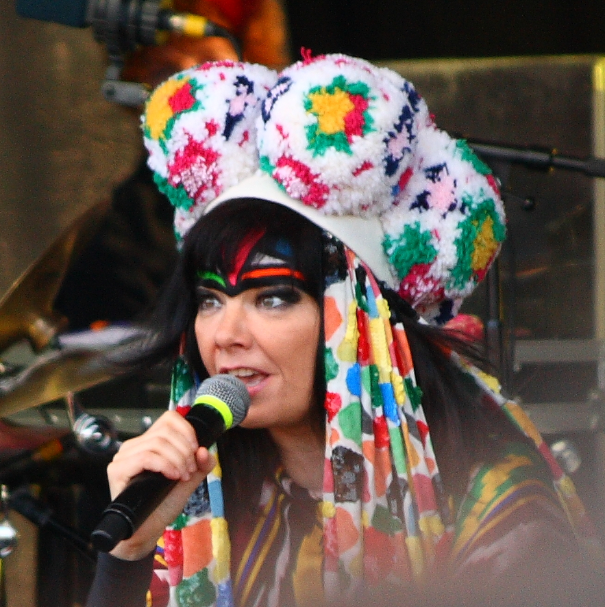 Björk at a Nature Awareness Nattura concert in Reykjavik